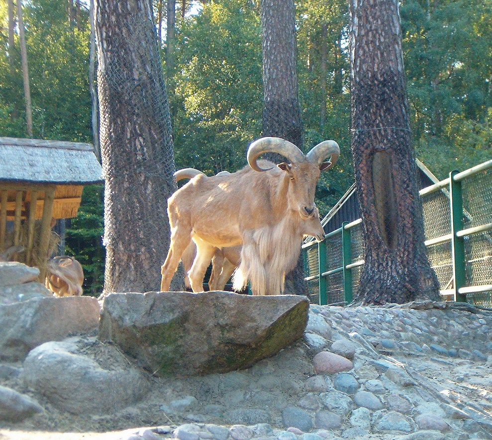 Ammotragus lervia